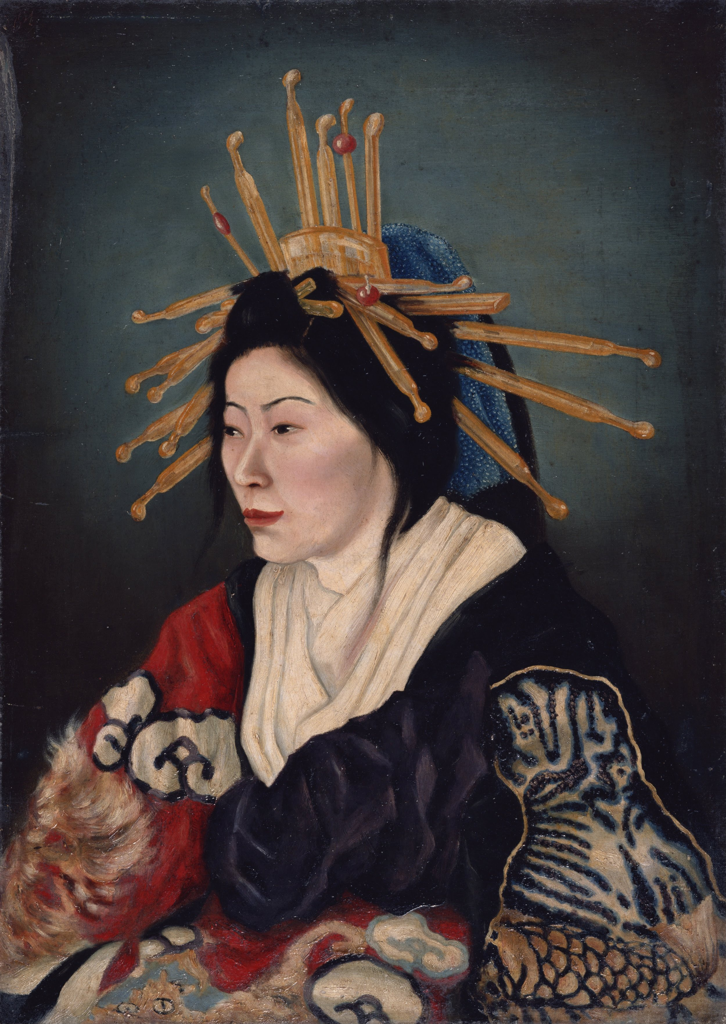 Portrait of an Oiran